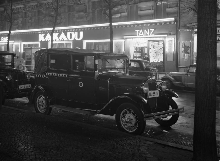 The Kakadu (1919-1937) was one of Berlin's most famous dance and nightclubs in the 1920s. It was located at Joachimsthaler Straße 10, corner of Kurfürstendamm, Berlin-Charlottenburg. It offered a bar, a large dance floor, performances by well-known jazz bands, cabaret and a vegetarian restaurant.